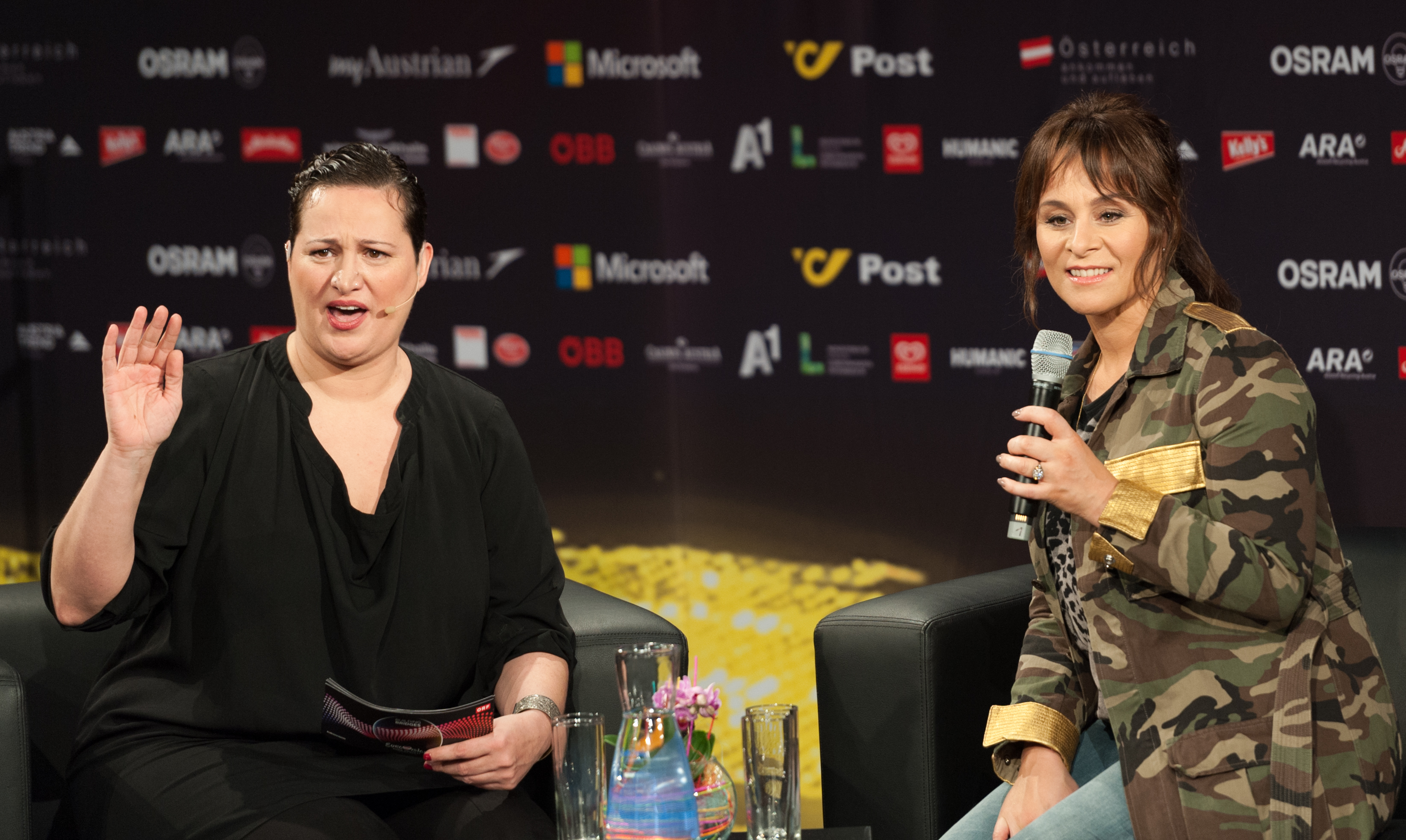 Eurovision Song Contest Vienna 2015: Trijntje Oosterhuis